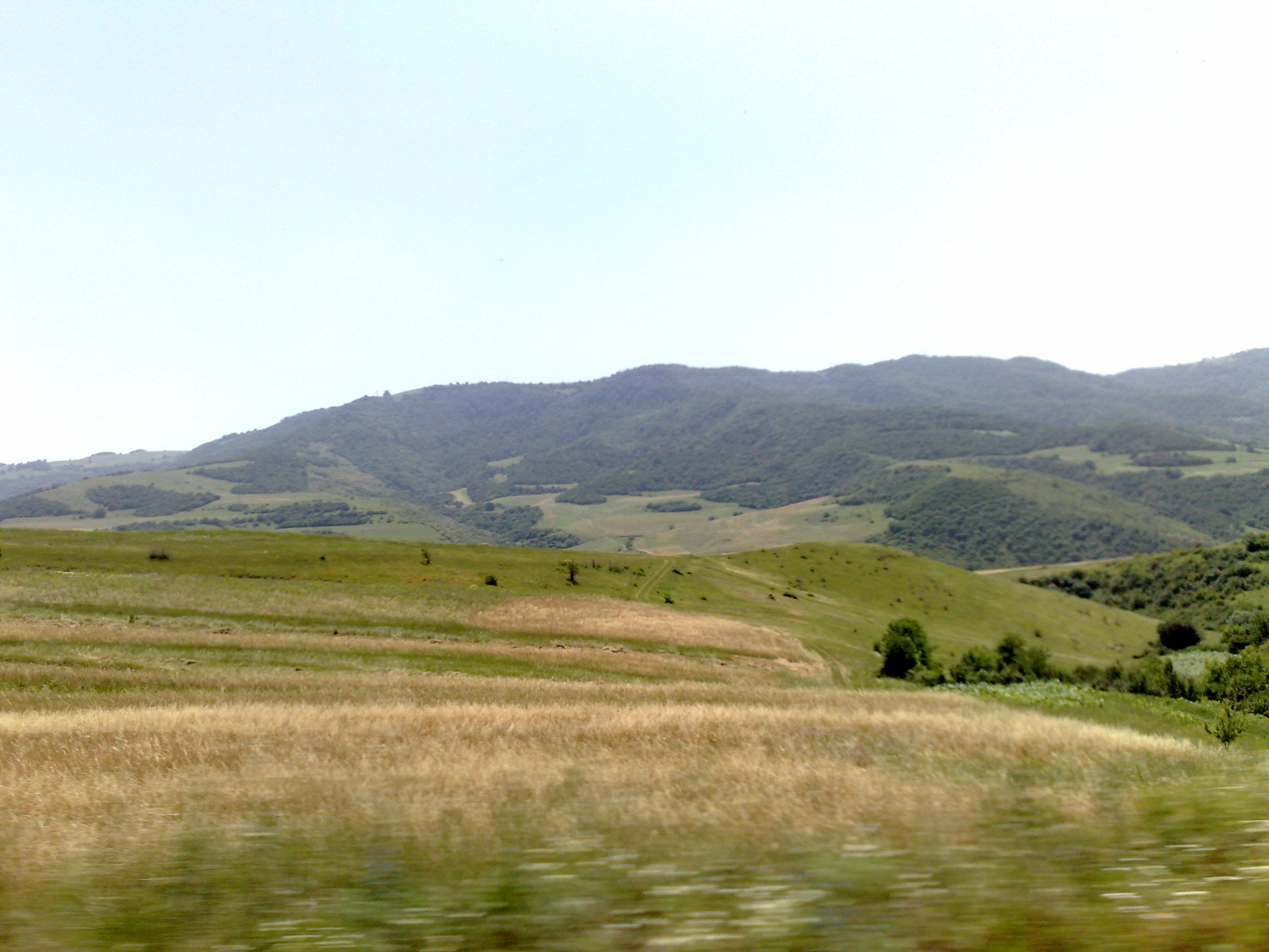 Nature. Tavush province of Armenia. Nearest area is Paravakar village.